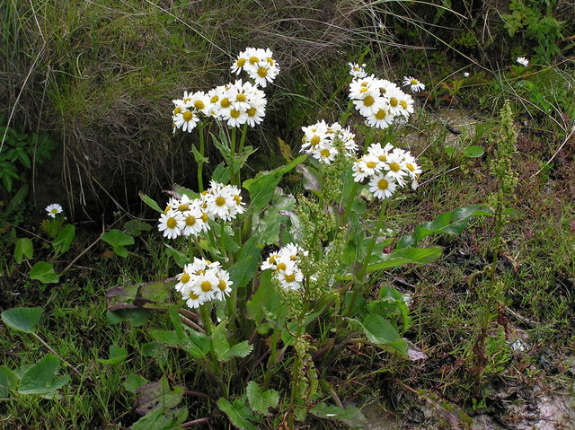 Magellan Ragwort at Dunnet Bay beach. Magellan Ragwort (Senecio smithii) grows in profusion at this location, as well as on Orkney, Shetland and a few other sites in Scotland - but only in about sixty 1 km squares in total. The species was evidently introduced from South America by returning sailors.